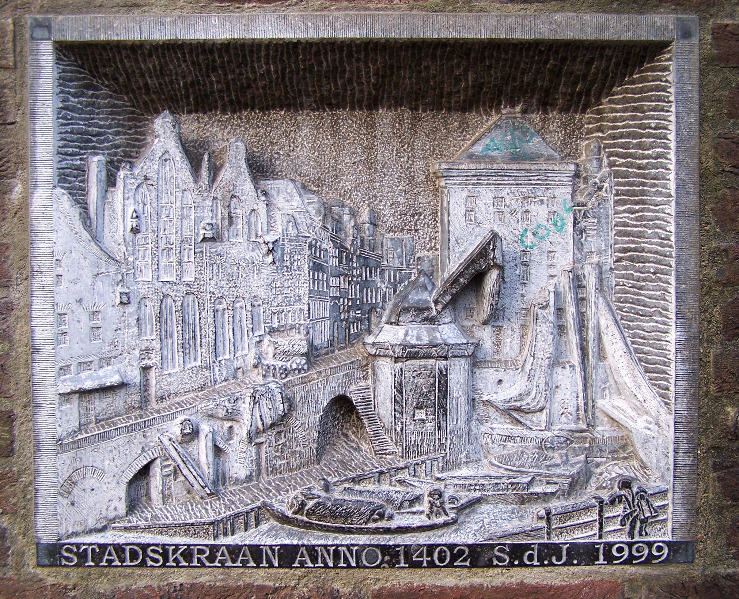 Relief of the citycrane in Utrecht. Made by Stef Stokhof de Jong in 1999. Placed at the lower part of the Oudegracht near the cityhall. At the exact place of the former citycrane. (See also this picture)